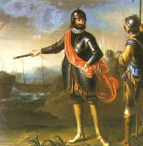 O duque